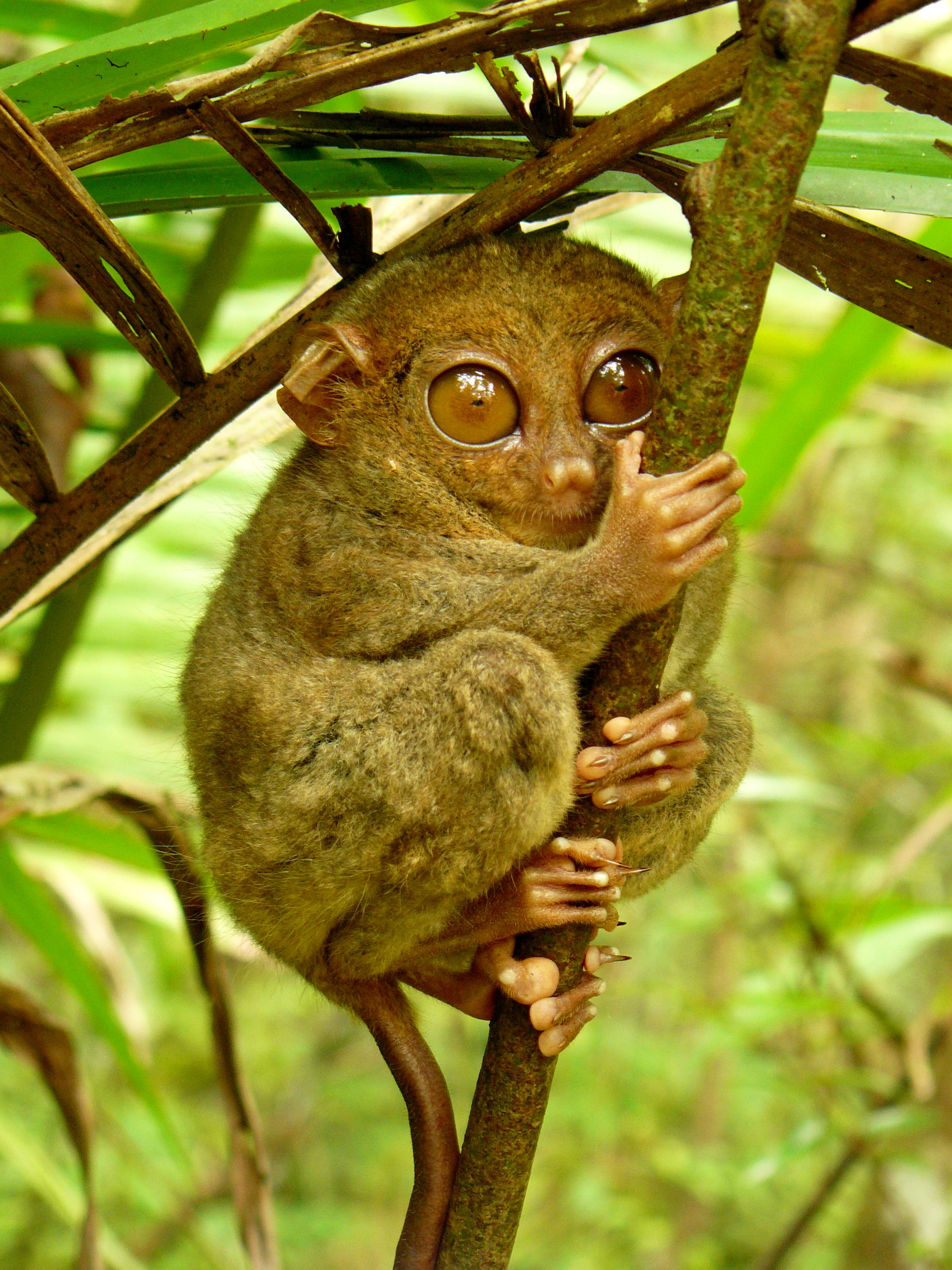 Philippine Tarsier (Carlito syrichta) hugging a mossy branch. Photo taken at the Tarsier Sanctuary, Corella, Bohol